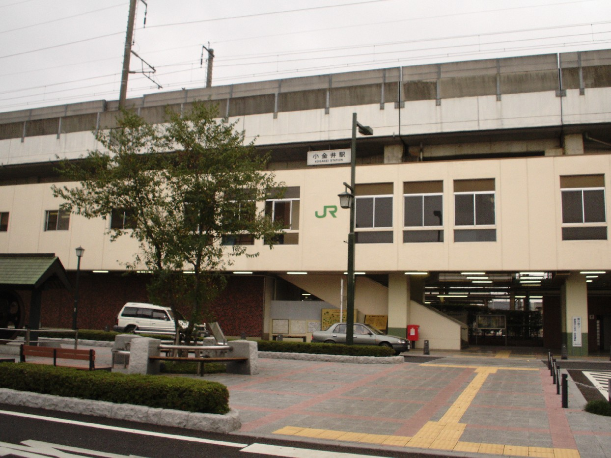 South Exit of Koganei Station, Utsunomiya Line (Tohoku Main Line)